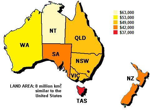 2007 map of median household income in Australia and New Zealand